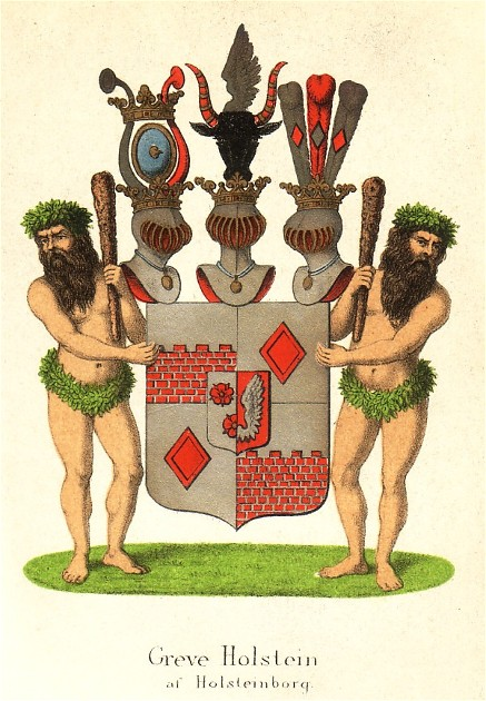 Coat of arms of the comital Holstein-Holsteinsborg family